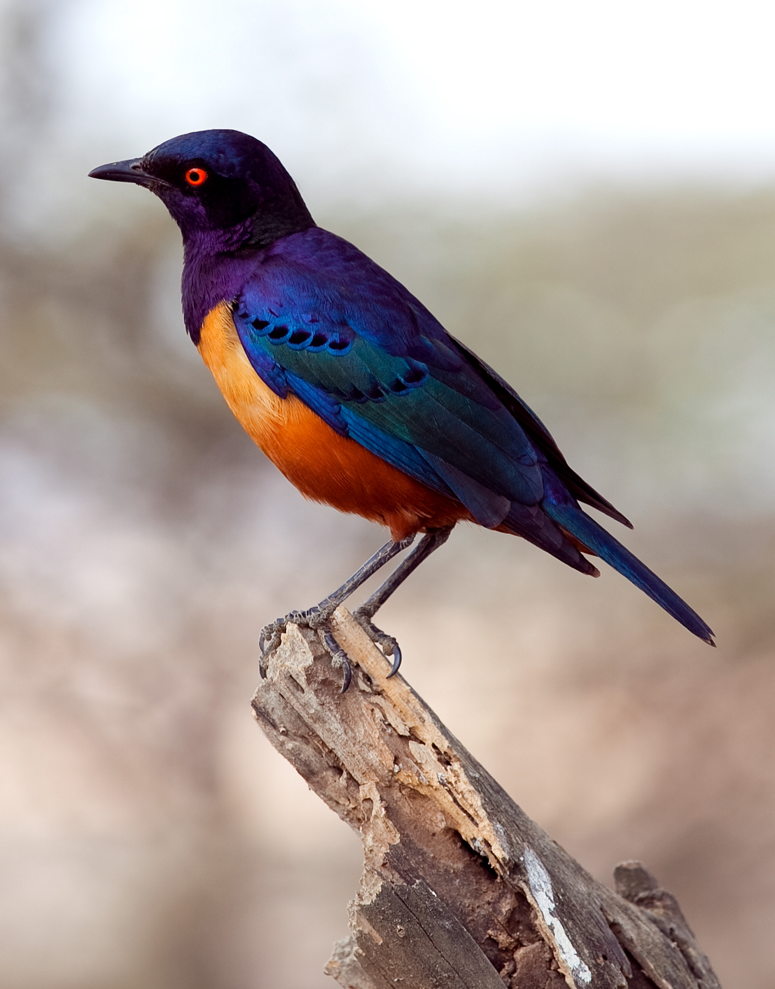 A Hildebrandt's Starling in Tanzania.